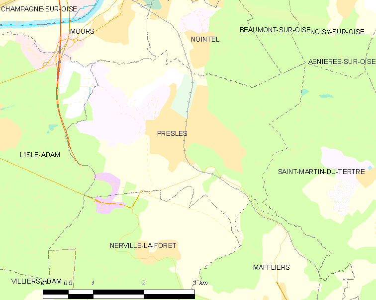 Map of French municipality Presles